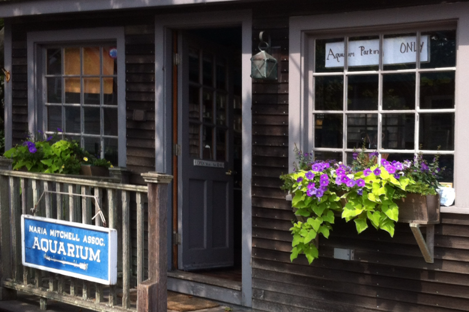 Exterior of the Maria Mitchell Aquarium from Washington Street, Nantucket